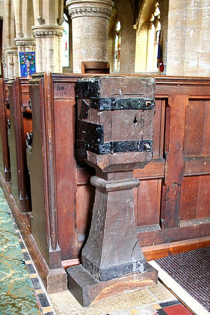 Alms box in All Saints' parish church, Moulton, Lincolnshire